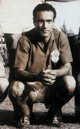 Parviz Dehdari Former iranian player